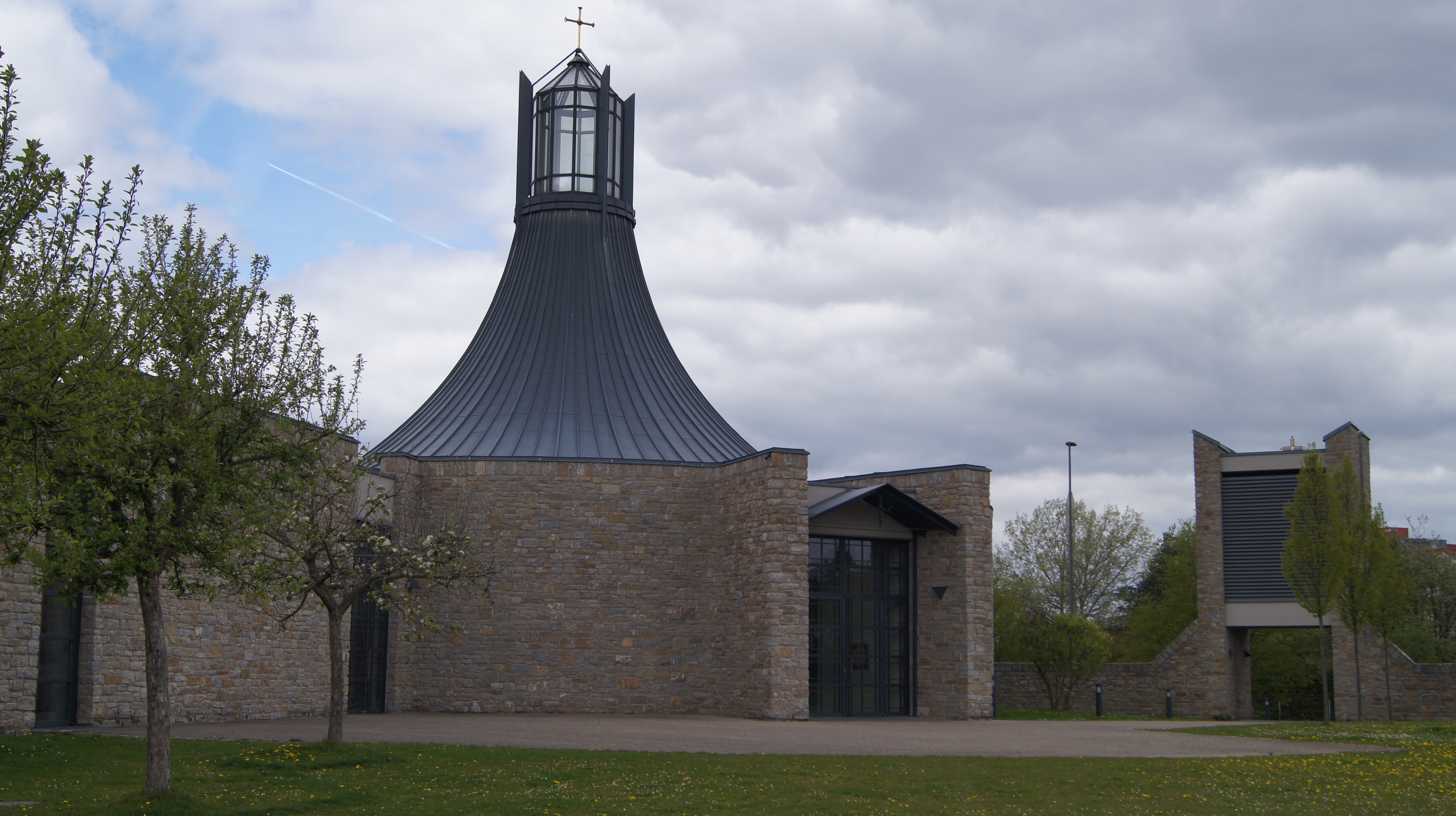 Gethsemane church in Würzburg-Heuchelhof, view from the east